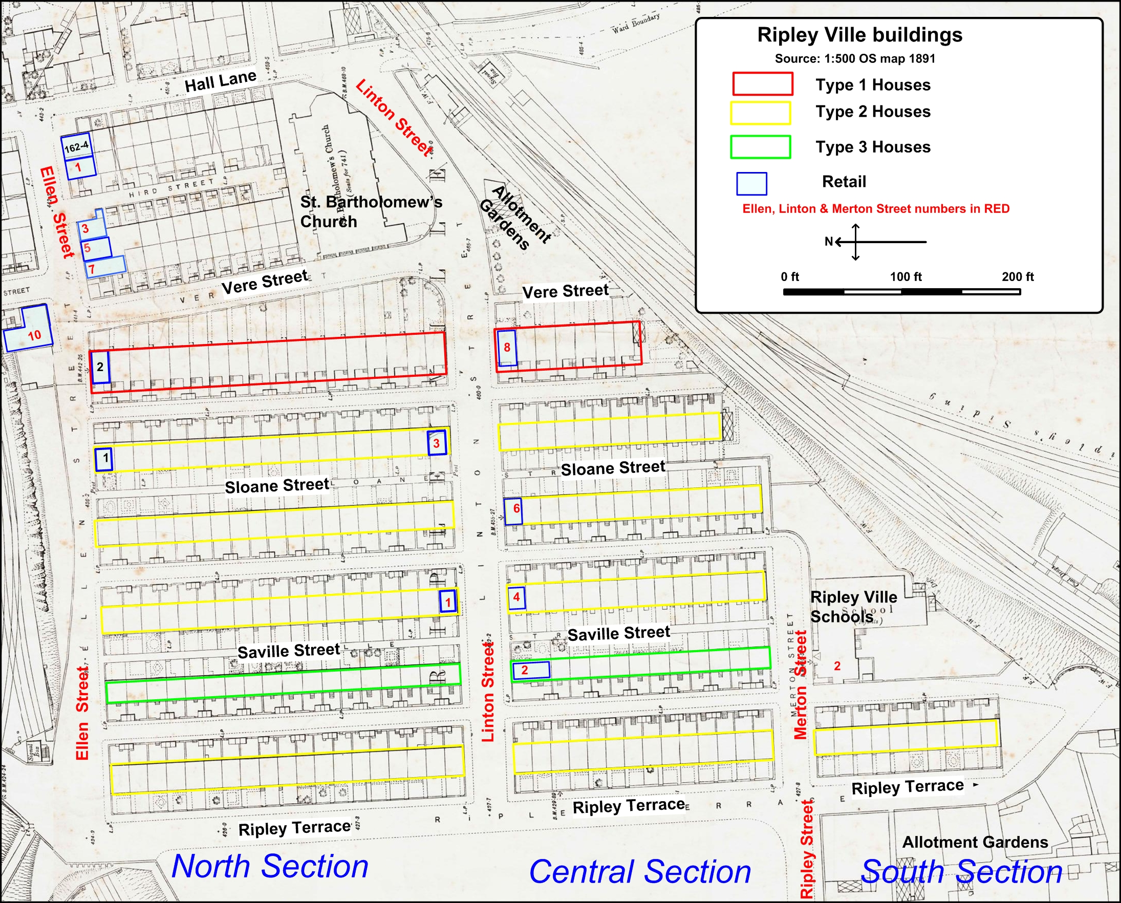 Map of Ripley Ville based on 1891 1:500 OS map with buildings and house types